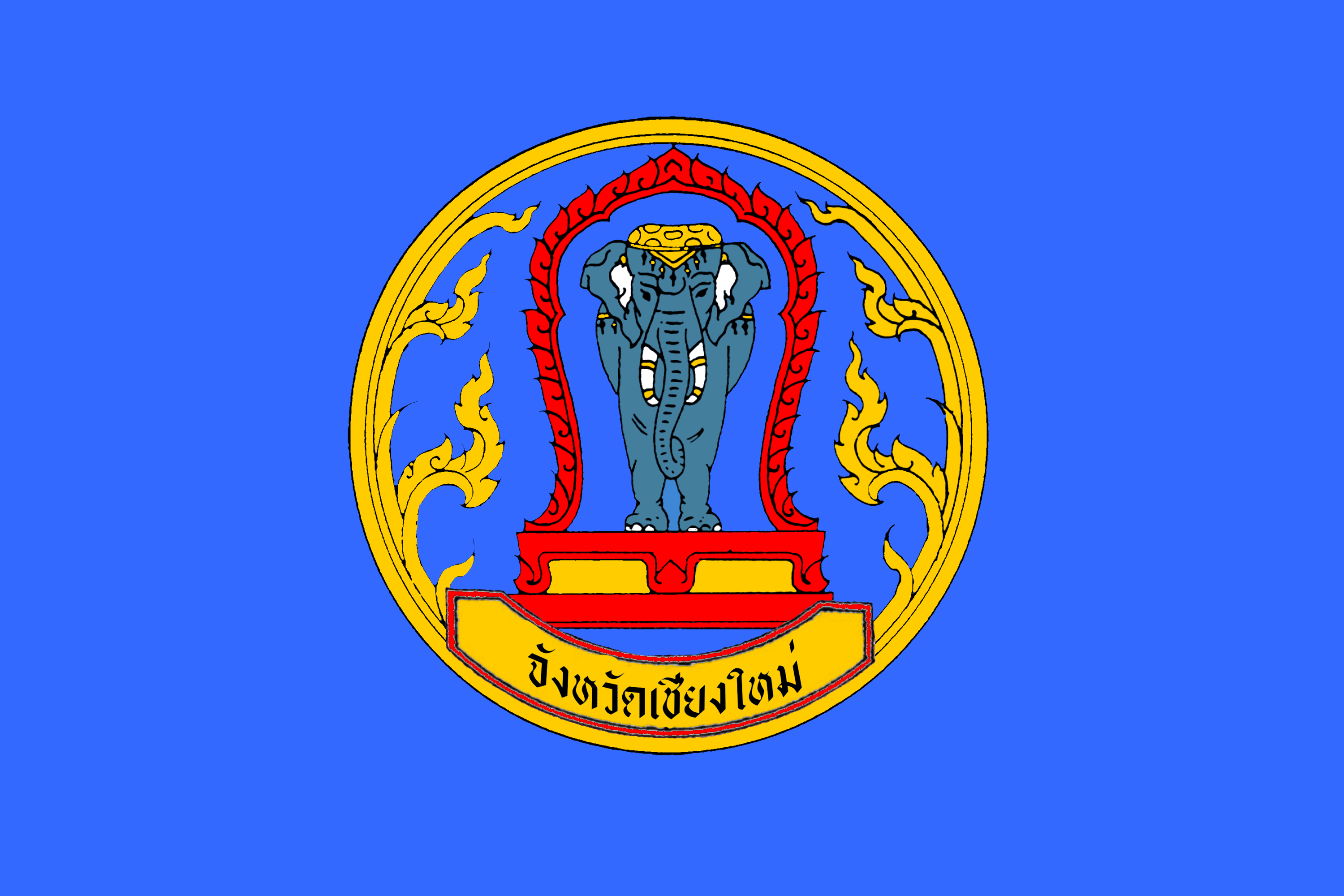 Flag of Chiang Mai Province